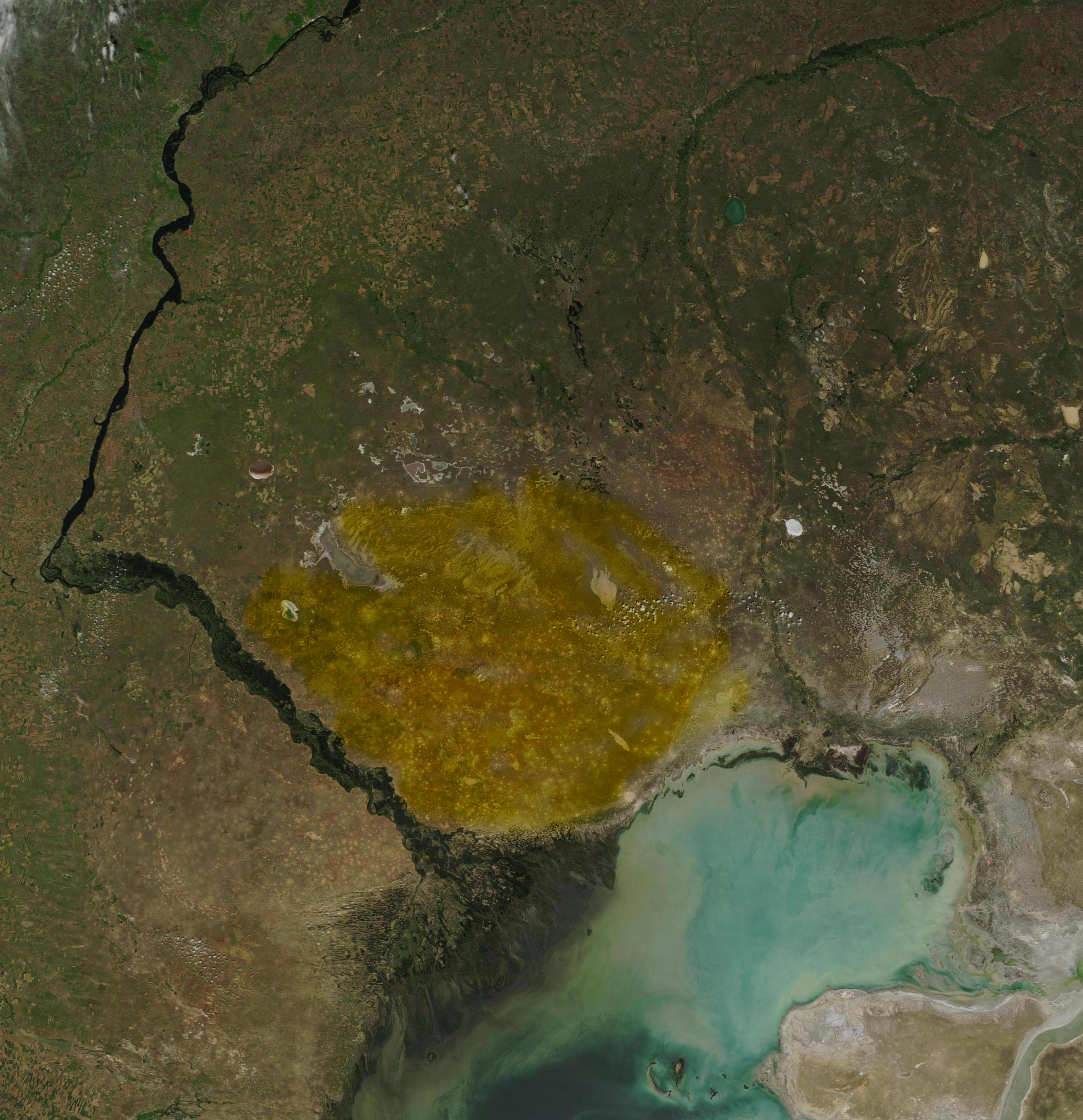 Ryn Desert